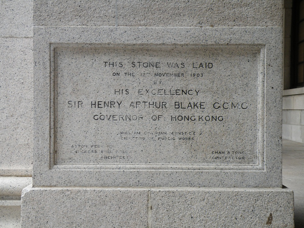 The stone of the Former Supreme Court Building